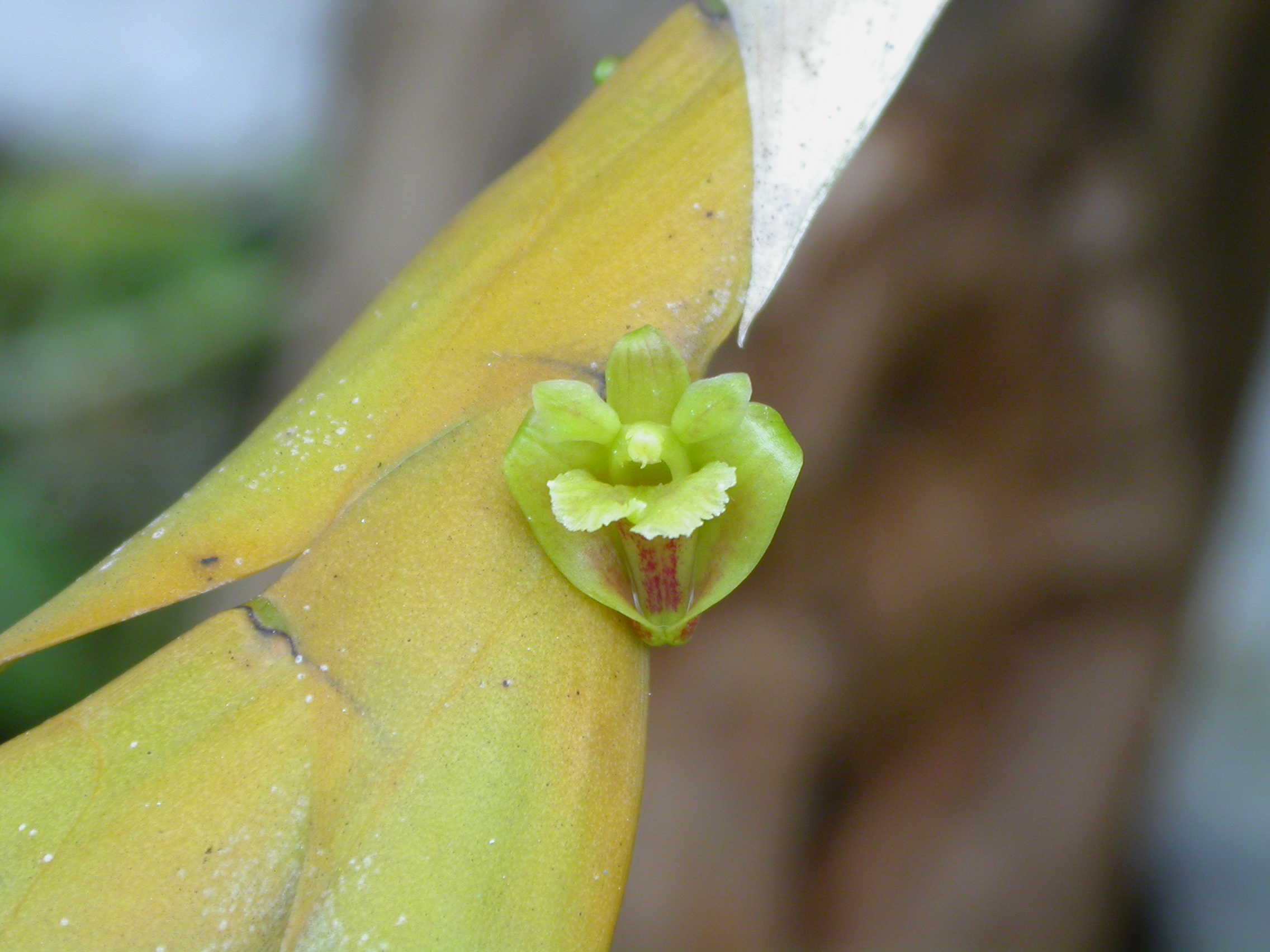 Aporum anceps